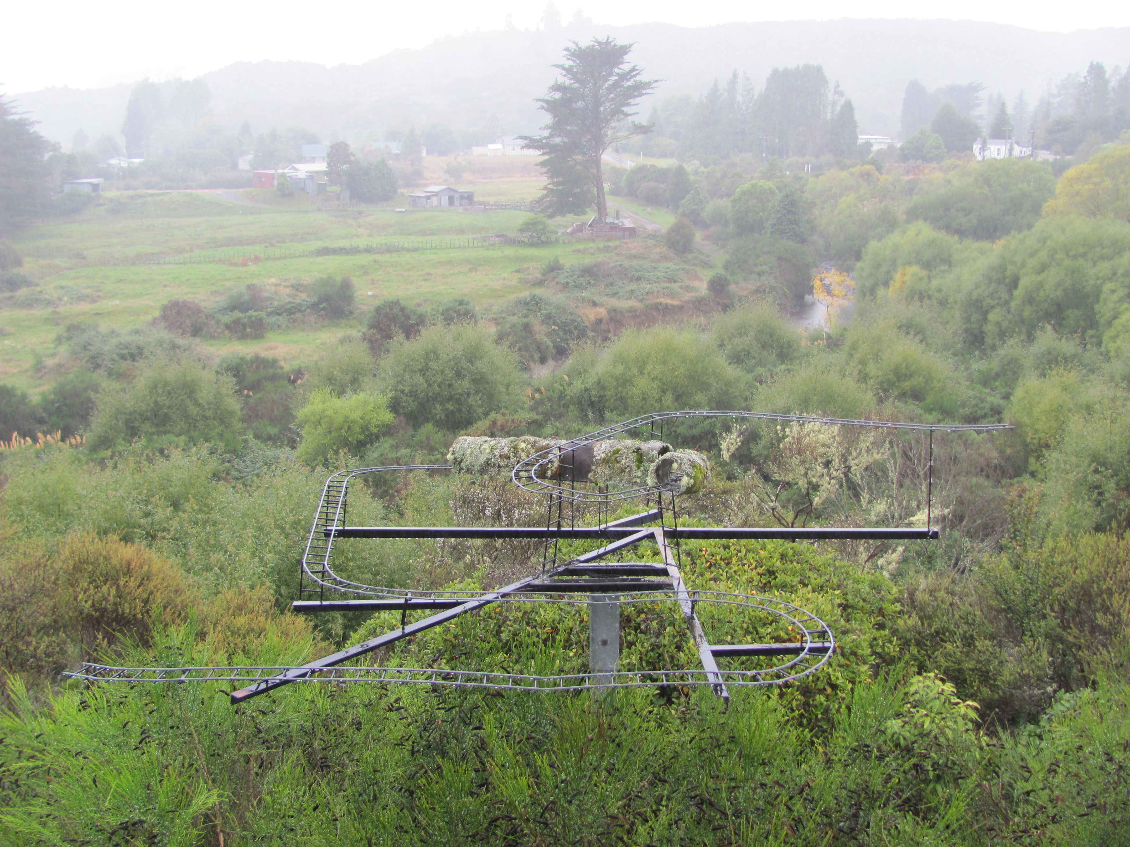 Model of Raurimu spiral at viewpoint